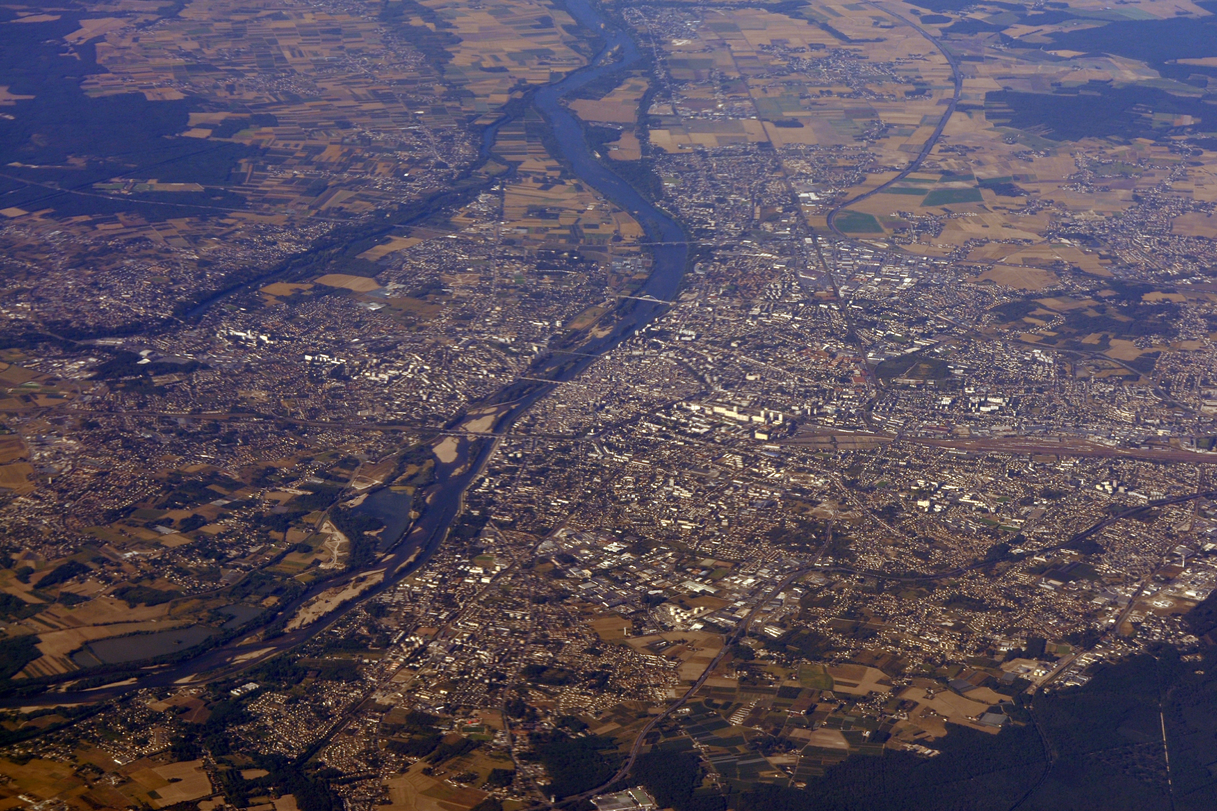 ORLEANS From Flight ORY-MAD 737 EC-LQX